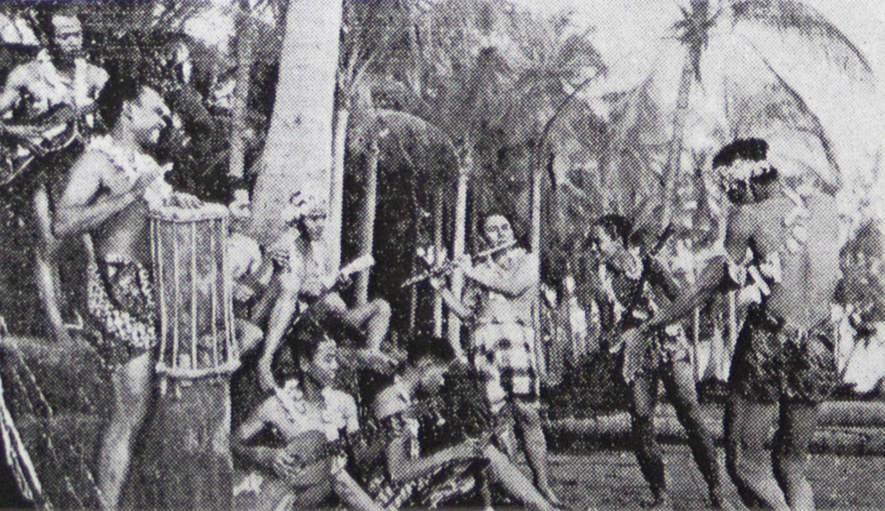 Screenshot from the film Terang Boelan